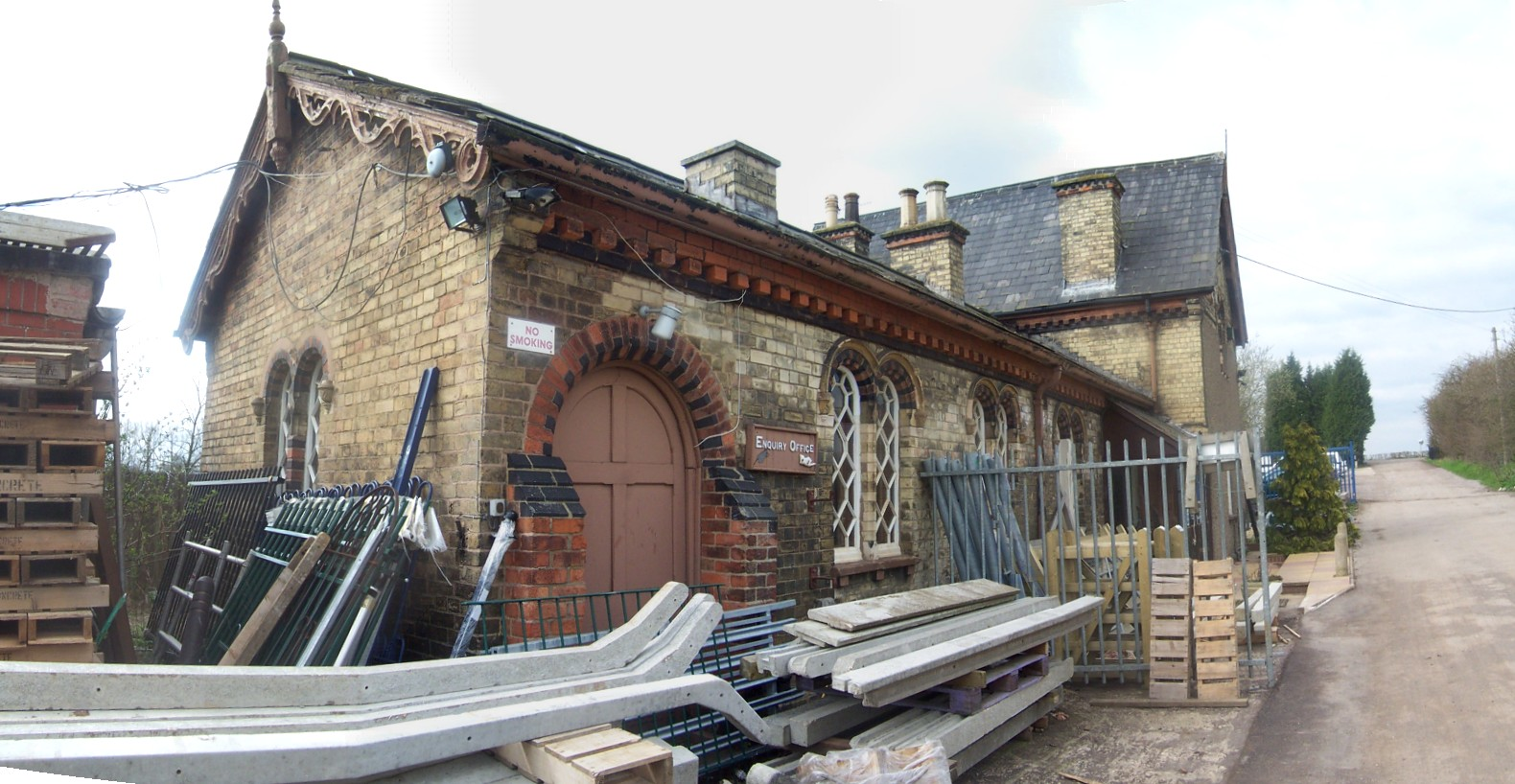 Panoramic view of front of Great Glen Railway station on the Midland Main Line near Great Glen village, Leicestershire, UK